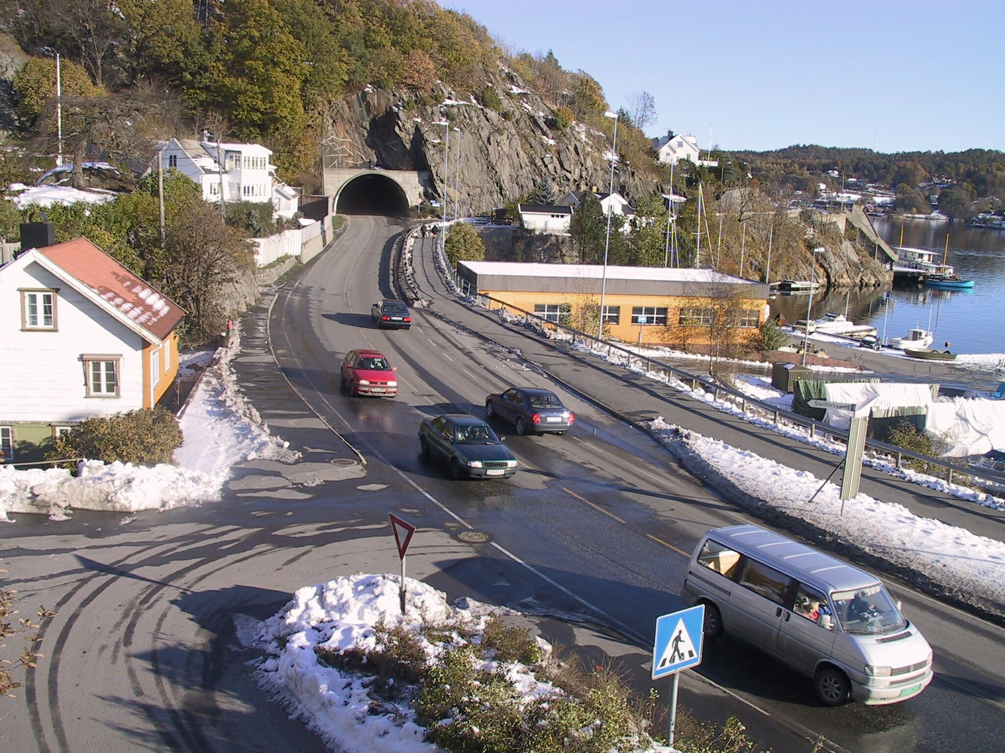 Arendal, Kuviga